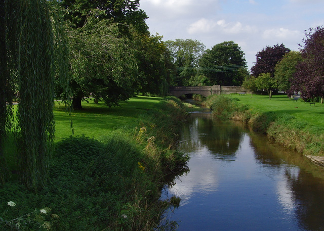 The River Eau, Scotter. Looking along Riverside towards the Messingham Road bridge.